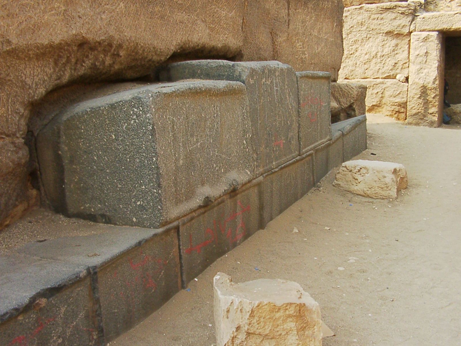 Granite casing in Menkaura's mortuary temple